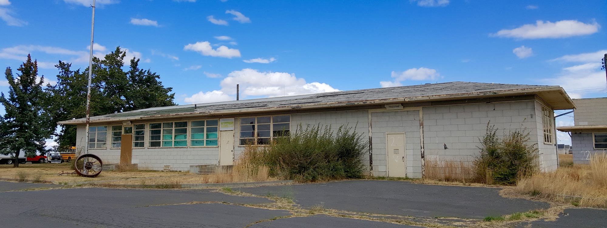 Condon AFS Headquarters/Admin/Mail Room/Movie Theater, photo by John Stanton 1 Oct 2016